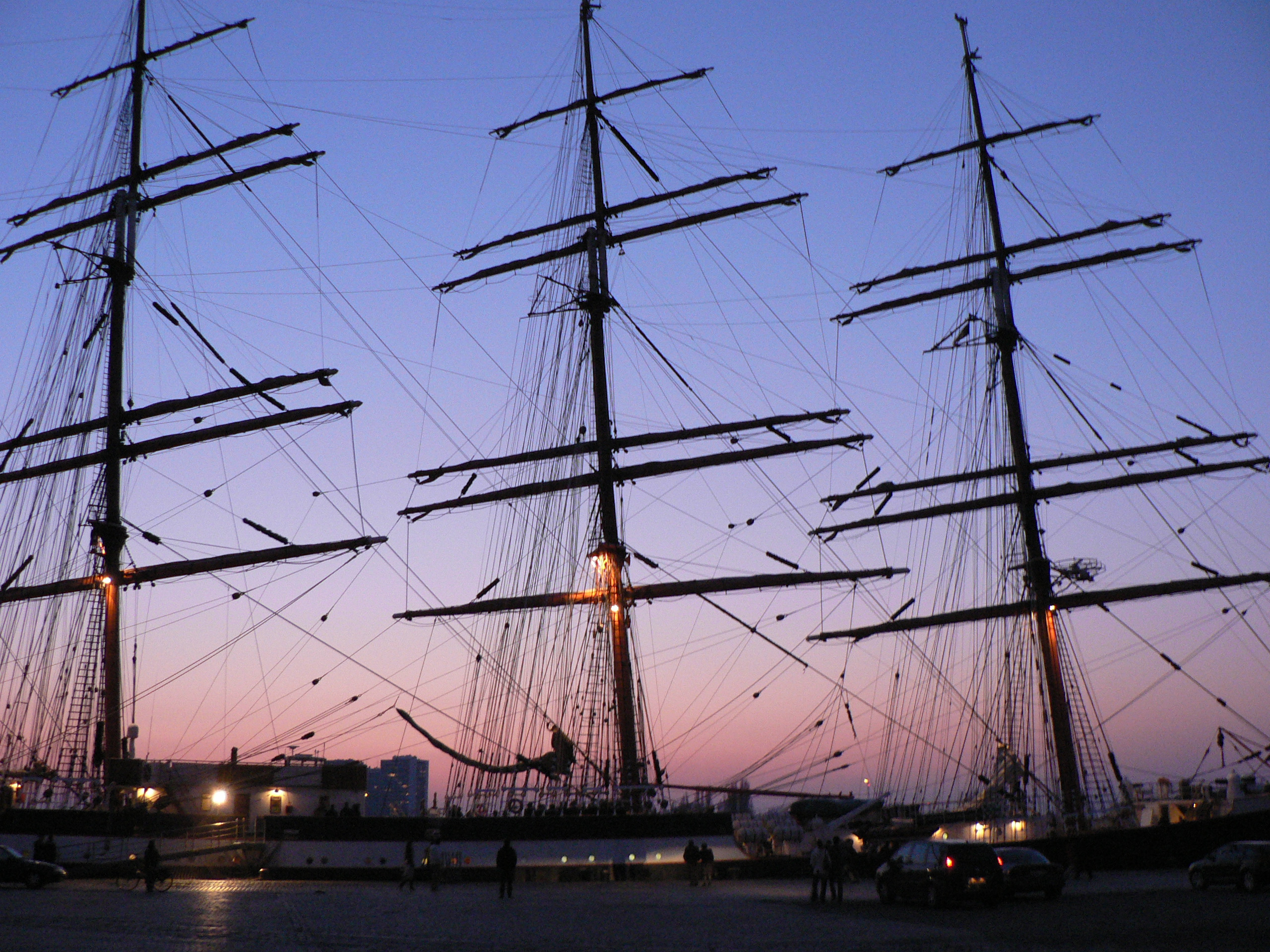 Russian Training ship Sedov (in Antwerp; coming from Malta going to East Sea)